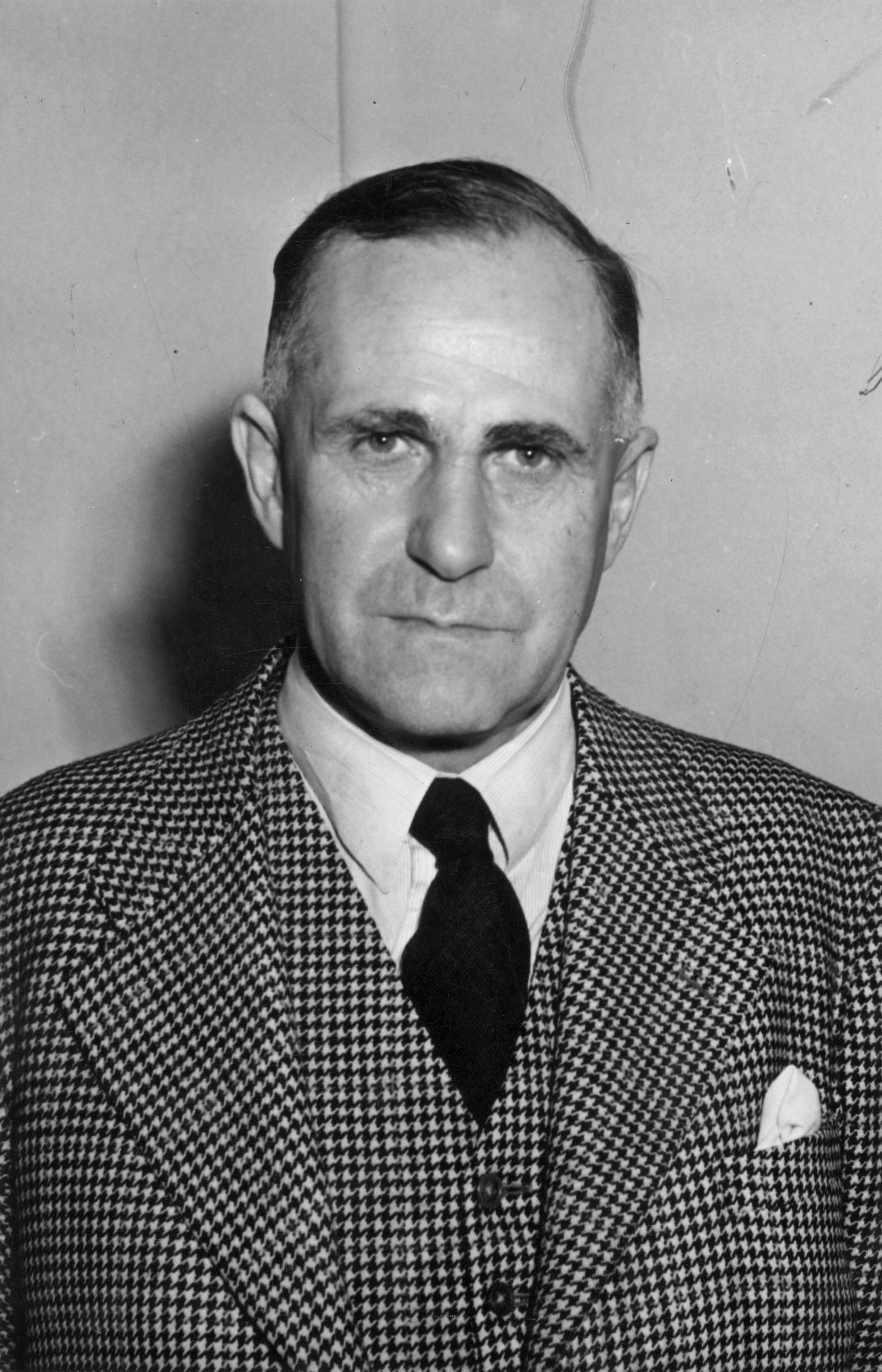 Howard Karl Kippenberger, 15 April, 1952. Photographer unidentified. Howard Karl Kippenberger. Original photographic prints and postcards from file print collection, Box 12. Ref: PAColl-6348-21. Alexander Turnbull Library, Wellington, New Zealand. The Crown has released this work under the CC-BY 3.0 unported license. Refer to source website for details: This work's copyright expired 50 years after creation in New Zealand and probably also in countries following the rule of the shorter term.